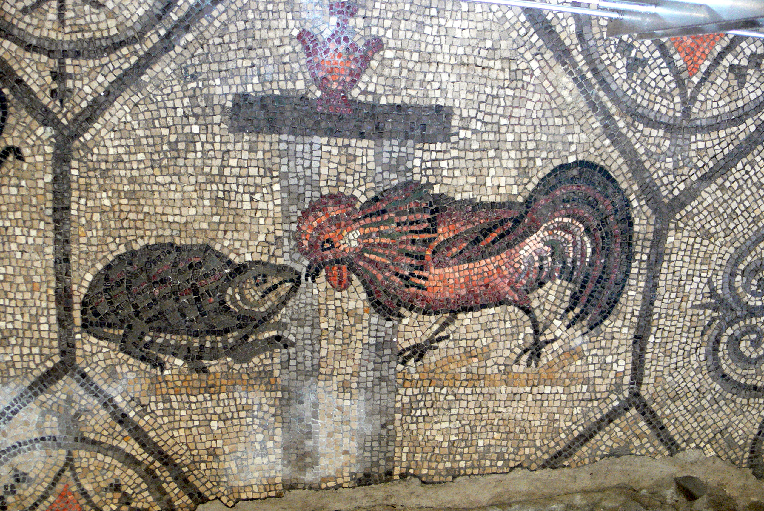 Patriarch's basilica, Aquileia. Excavations: Mosaic ( 4th century ). Showing a cock ( light ) fighting against a turtle ( darkness ) — made from tesserae.